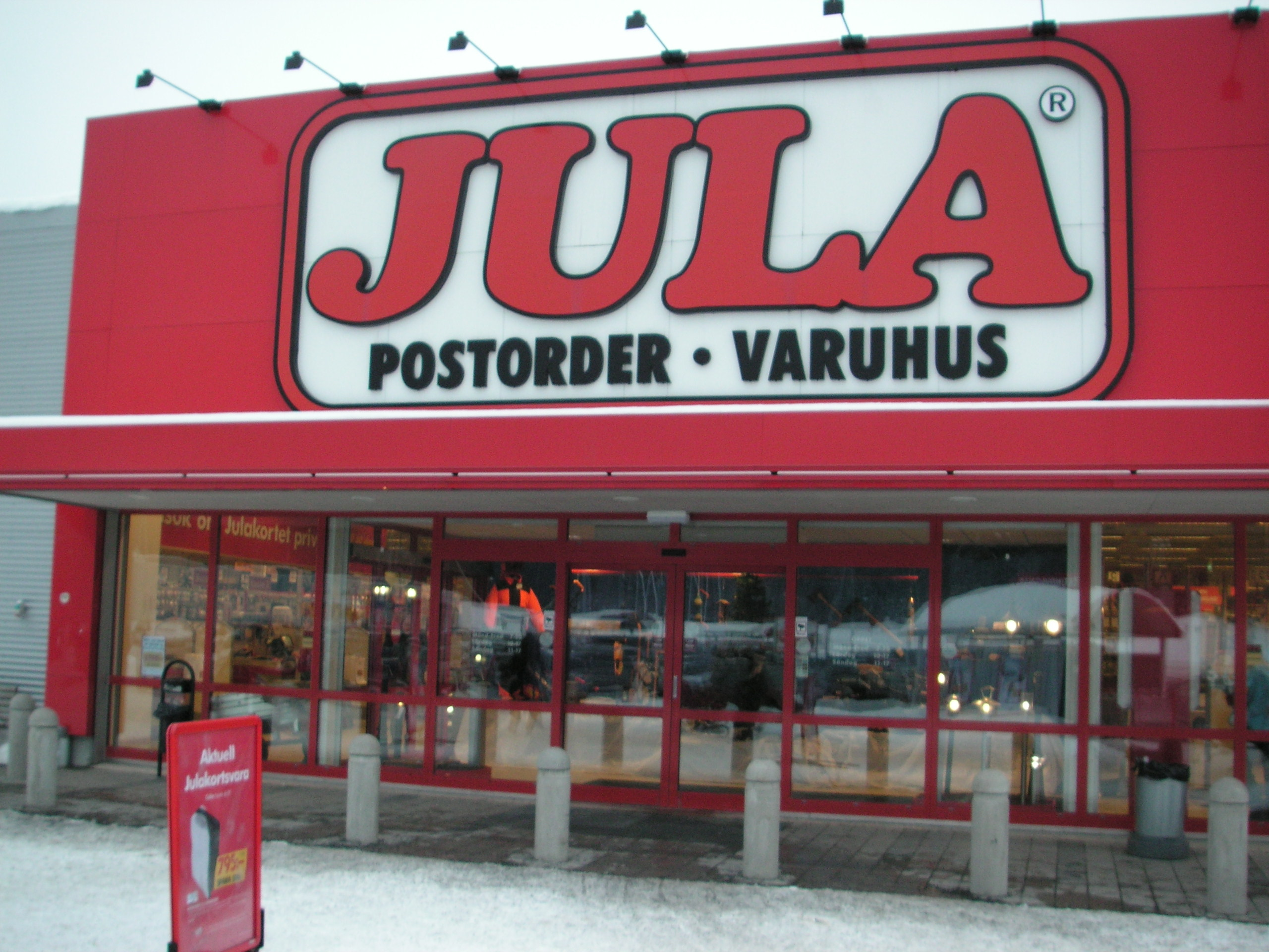 Jula store in Umeå, Sweden.